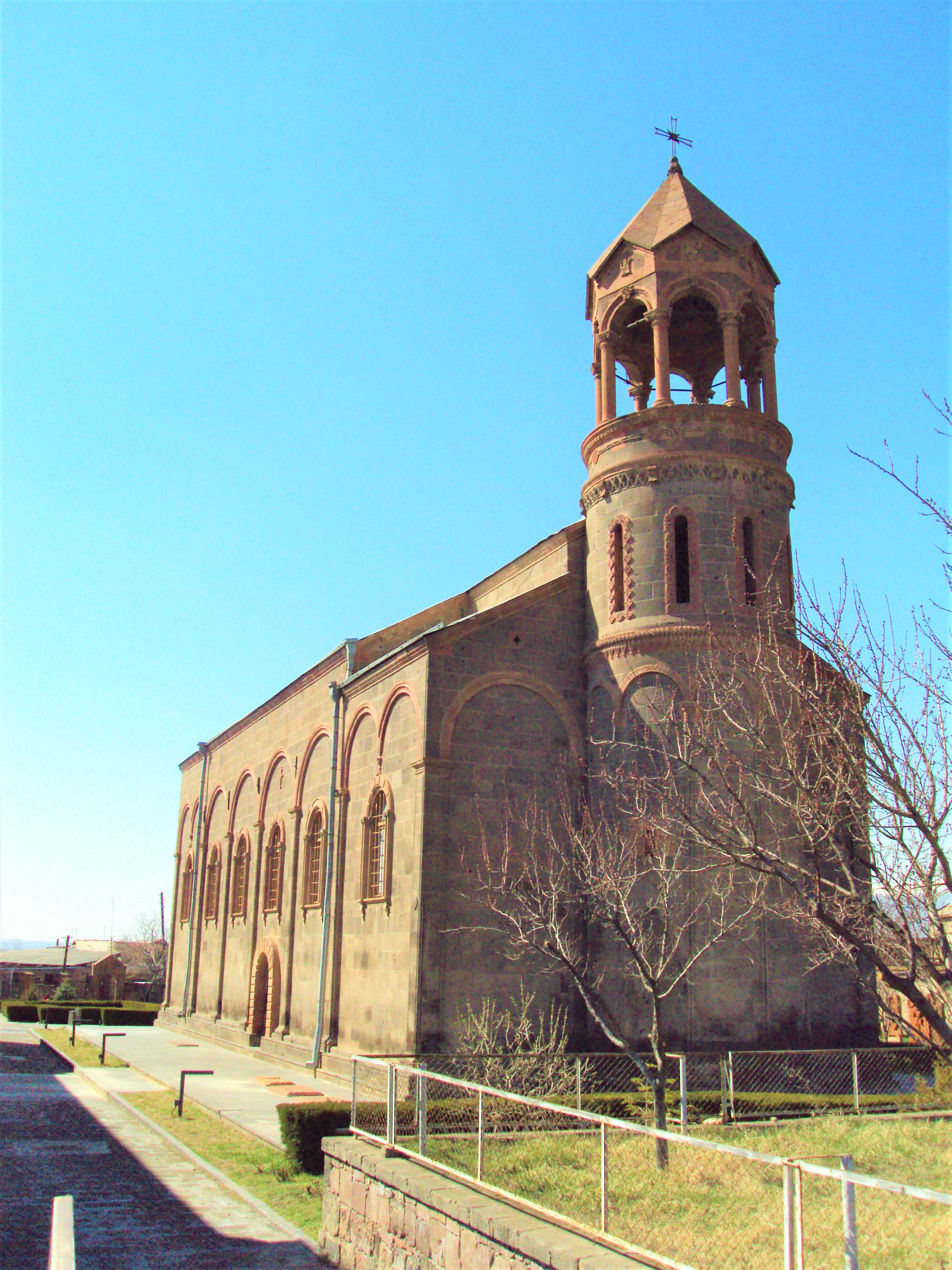 Mesrop Mashtots Church (1875), Iinside the Church is the entrance to the tomb of Mesrop Mashtots (442-443)